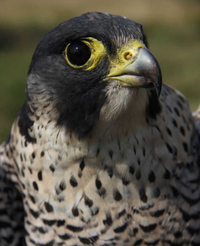 Peregrine falcon (Falco peregrinus), Mekszikópuszta, Hungary